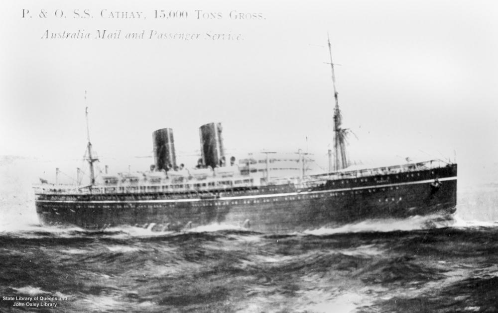 The passenger liner SS Cathay, 15,104 tons gross, of the P&O Steam Navigation Co.